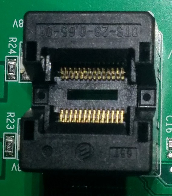 Zero insertion force socket for TSSOP (thin-shrink small outline package)